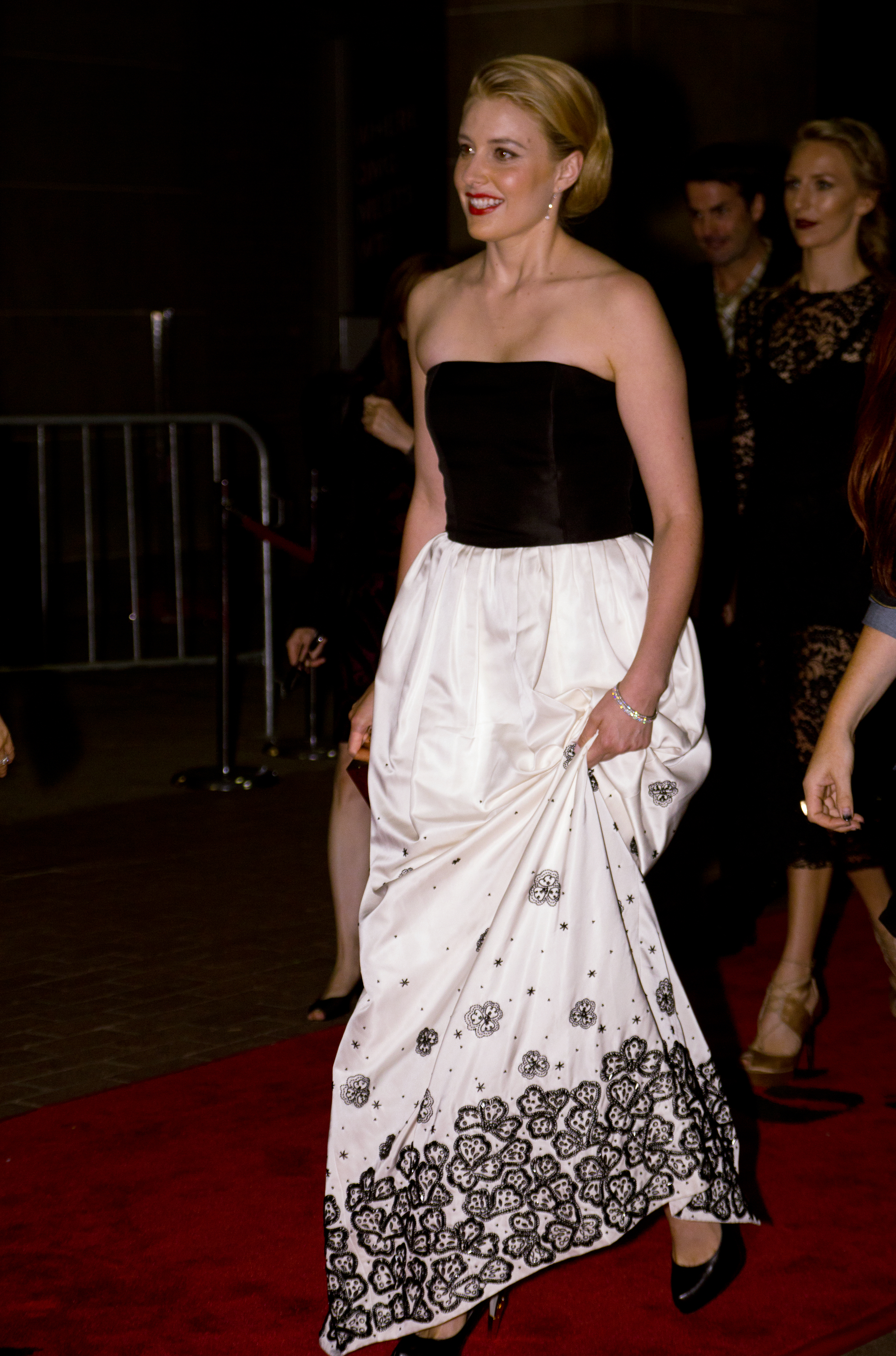 Greta Gerwig at the 2012 Toronto International Film Festival.